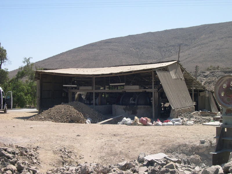 Andacollo: Traditional gold processing.